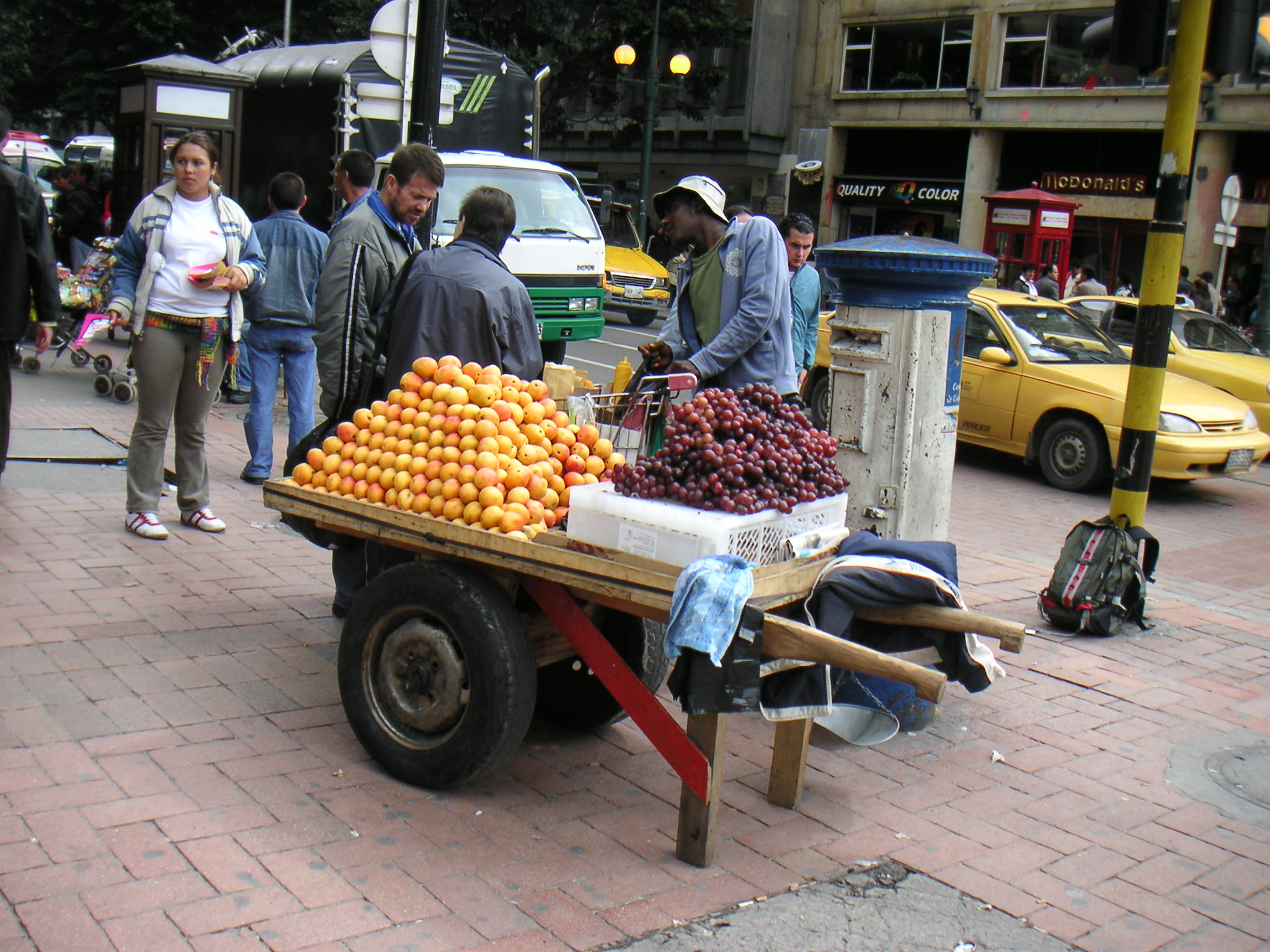 Description: Fruits seller, Bogotá, Colombia Source: Louise Wolff (darina), May 2005